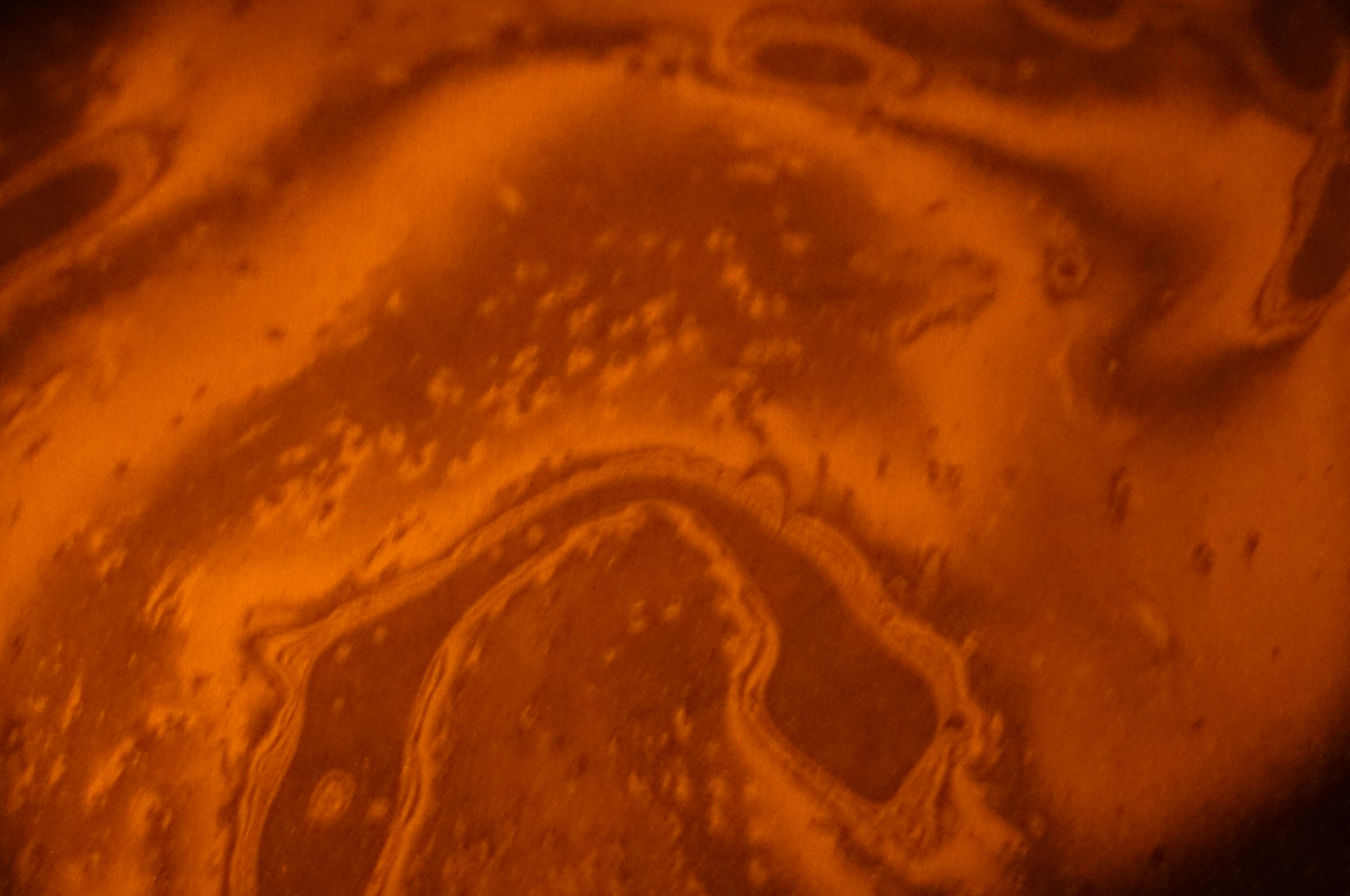 Thin-film interference from gasoline on water as seen in monochromatic light, using a 589 nanometer laser.